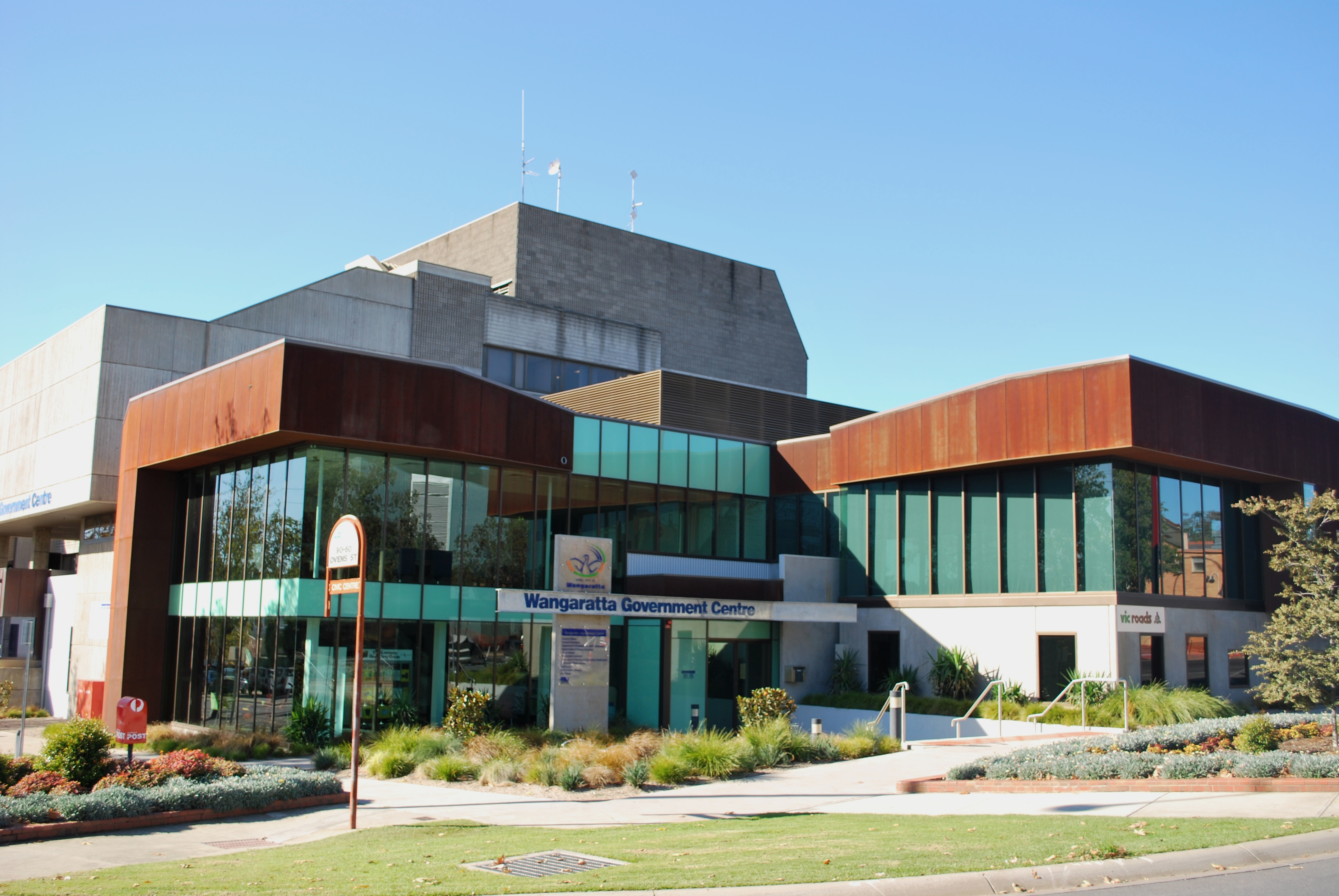 Council Administration office and State Government offices at Wangaratta, Victoria